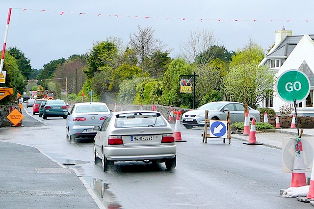 Bearna (Barna) There was considerable disruption along the coast road R336 through Bearna (Barna) during the early part of 2009 whilst a pipeline was laid. The section was about half a mile long and the technique was to leave the "go" board displayed in one direction for up to five minutes at a time.